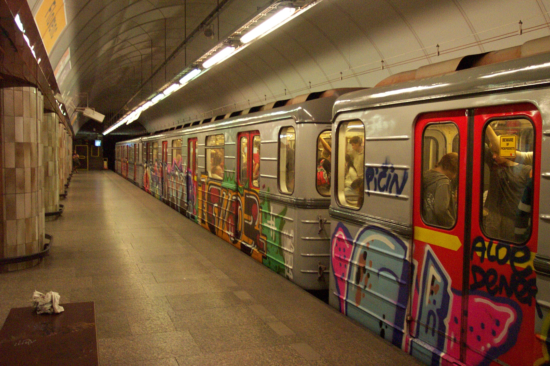 Metro station Florenc, Prague, CZ (train with grafitti).